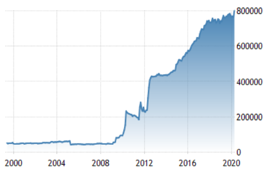 Foreign exchange reserves of Switzerland from the date of data compilation to the year 2020.